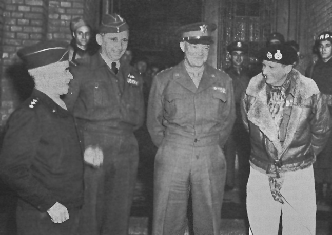 GENERAL BRADLEY, AIR CHIEF MARSHAL TEDDER, GENERAL EISENHOWER, AND FIELD MARSHAL MONTGOMERY (left to right), during the Maastricht meeting, 7 Dec. 1944, about the Allied strategy in the Ardennes.